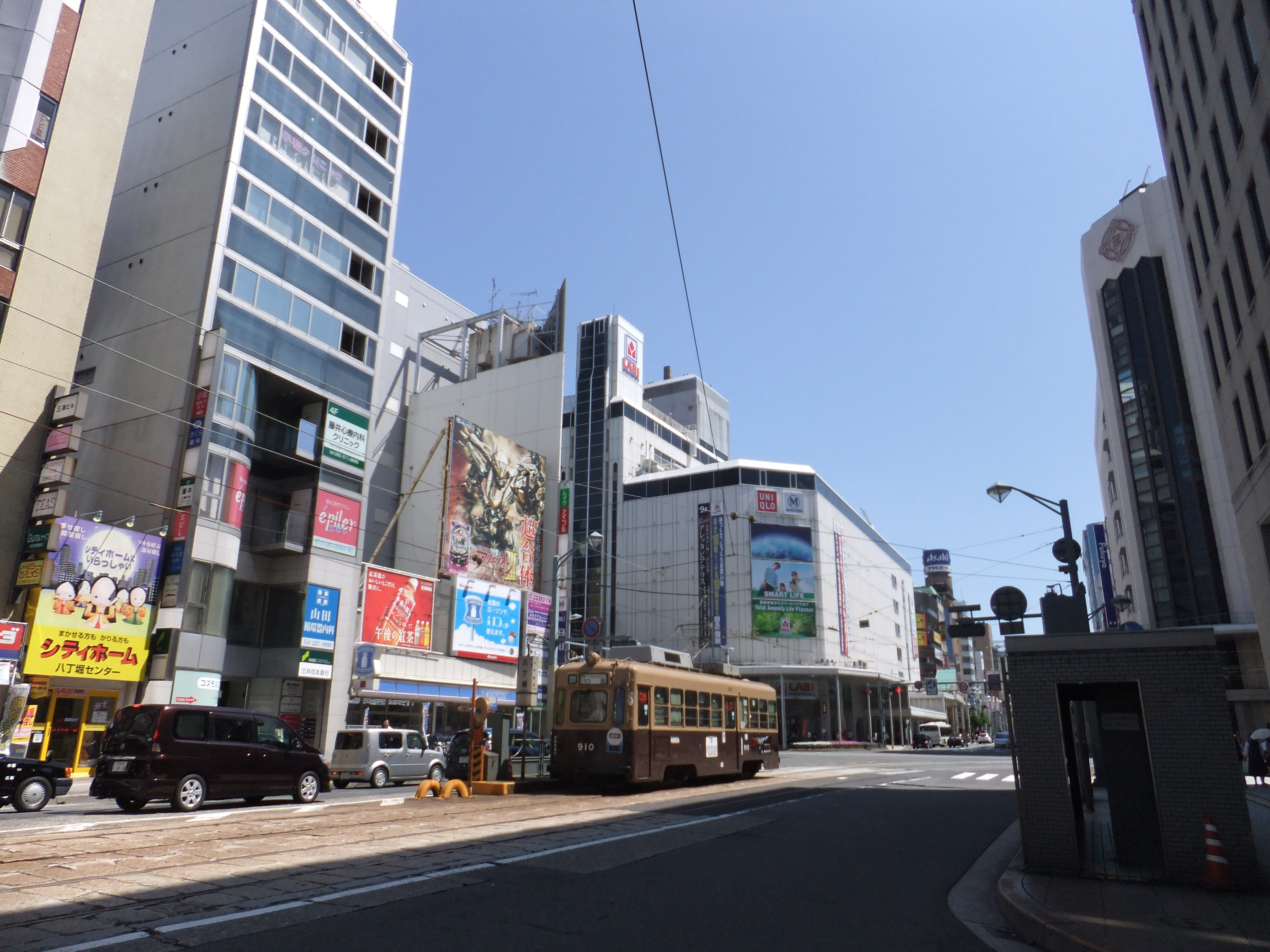 Hiroshima Electric Railway Hatchobori Station